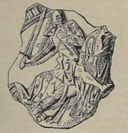 Seal of John I Orsini